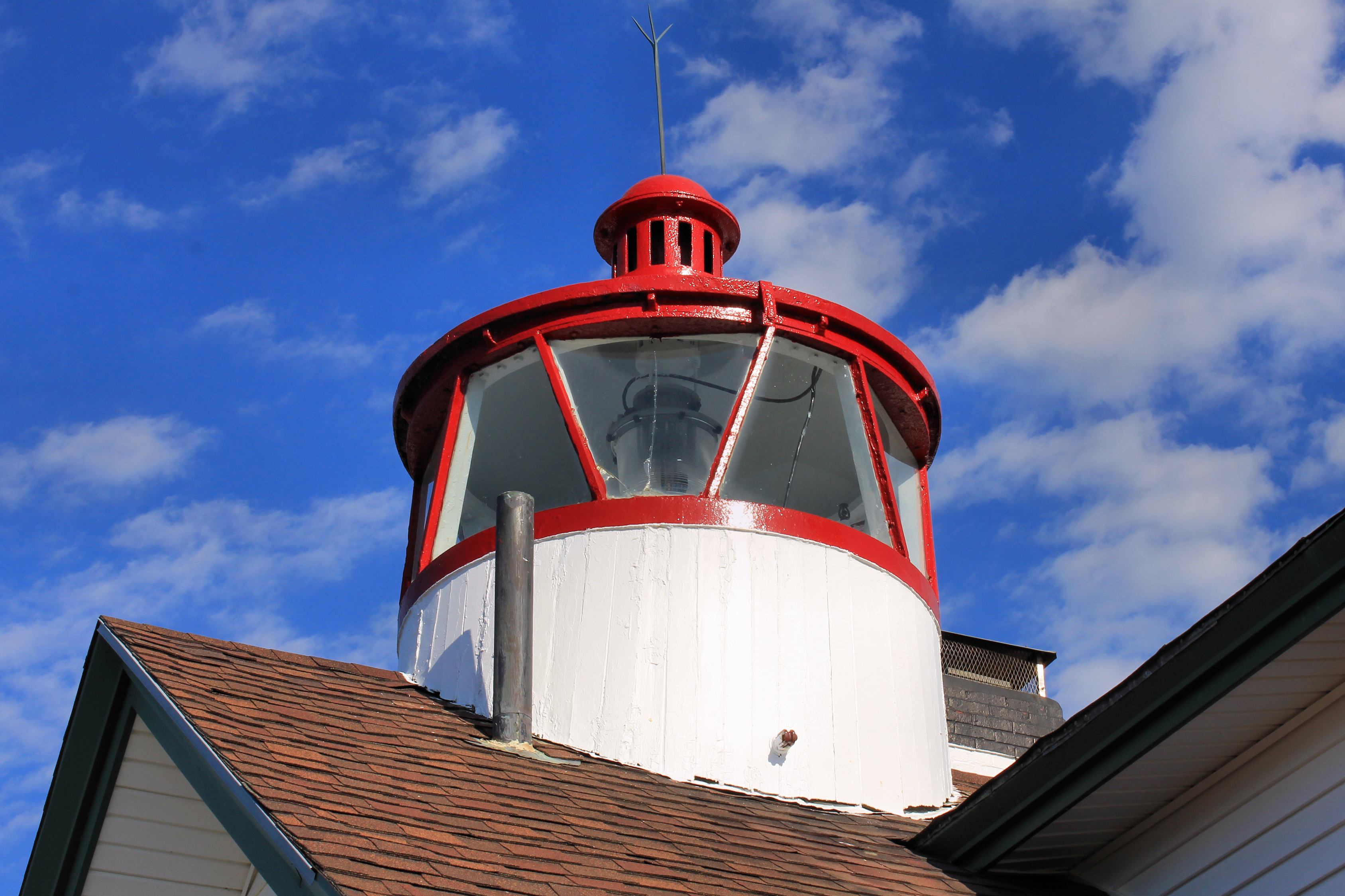 The West Dennis Light, Cape Cod, Massachusetts, United States.